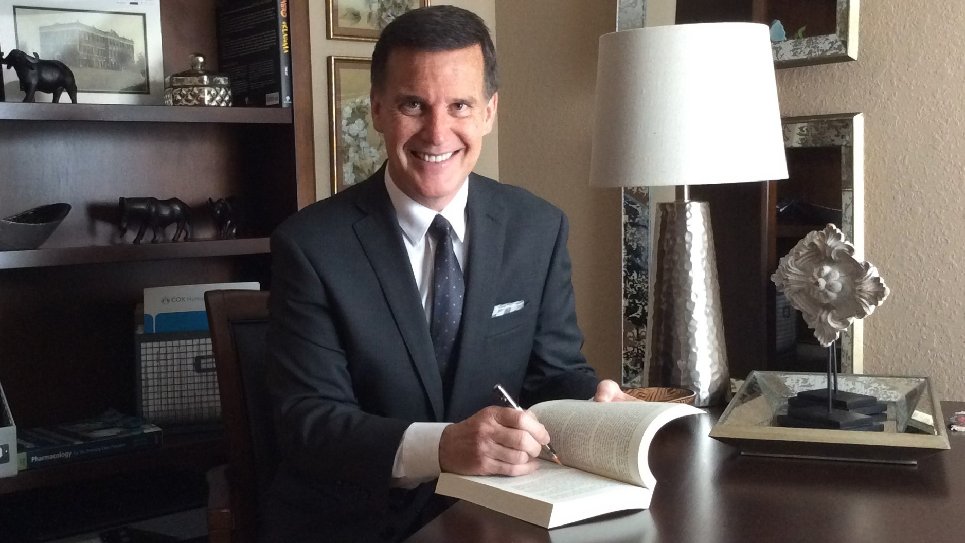 Wade Burleson is the author of several books on history, self-help, and theology.